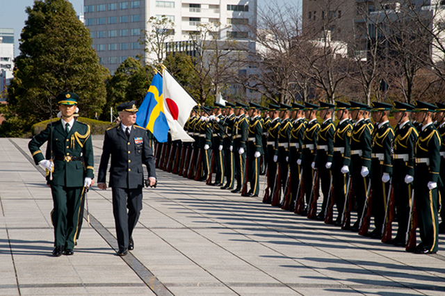 General Sverker Göranson, Supreme Commander of the Swedish Armed Forces, visit the Japan Ministry of Defense in Tokyo on March 2nd, 2015.